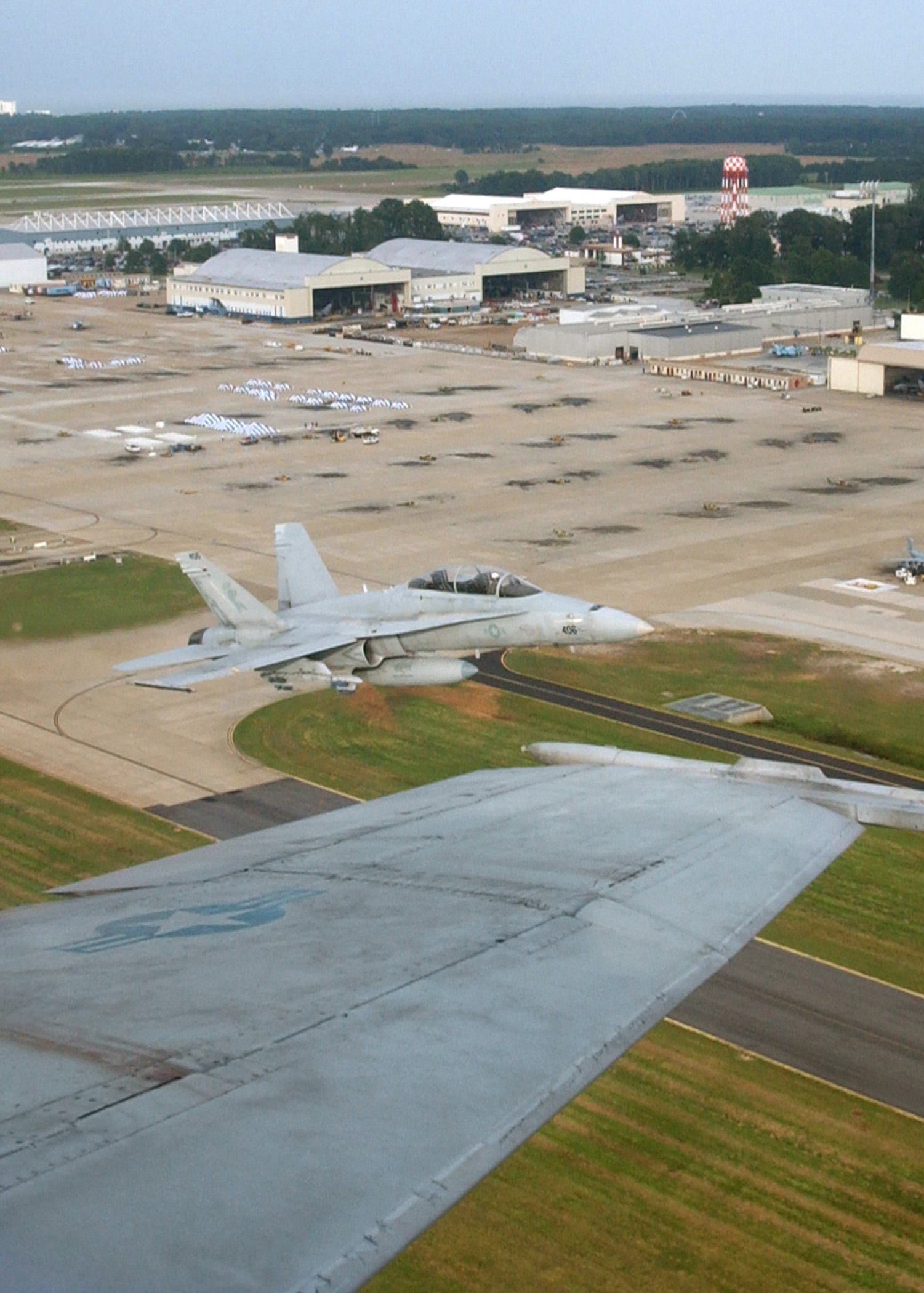 Naval Air Station Oceana, (Sept. 3, 2003) -- 1st Lt. Jason McManigle, assigned to the “Gladiators” of Strike Fighter Squadron One Zero Six (VFA-106), performs a section takeoff in an F/A-18D Hornet from Naval Air Station (NAS) Oceana. U.S. Navy photo by Photographer’s Mate 1st Class Matthew J. Thomas. (RELEASED)